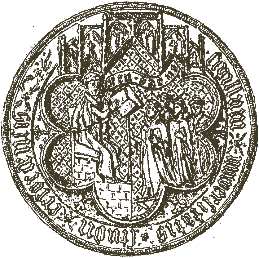 Seal of the old University of Erfurt (Hierana), Thuringia.